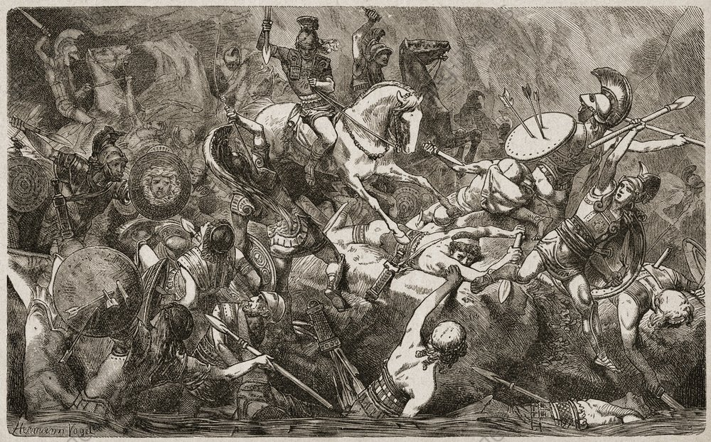 The fall of the Athenian army in Sicily (423 a.C.)